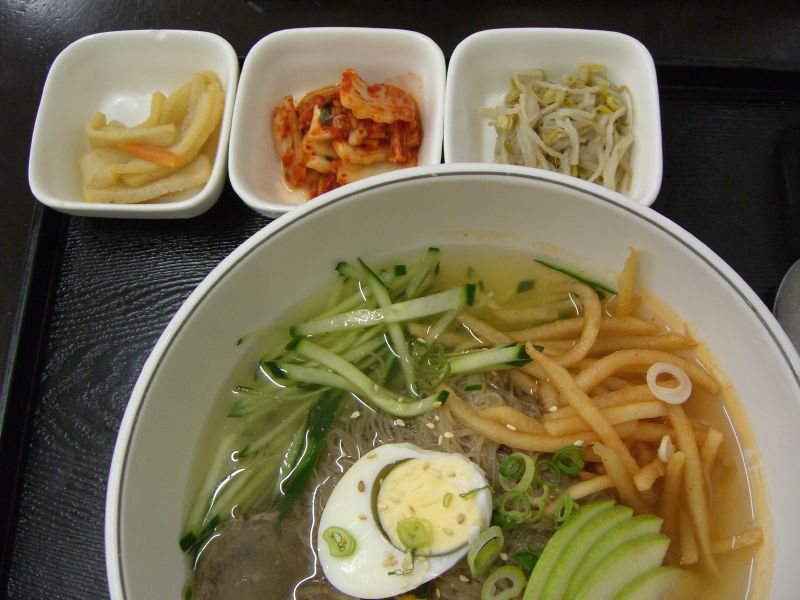 Mulnaemyeon Noodle in a cold soup with vegetables and boiled egg and accompanied Banchan.